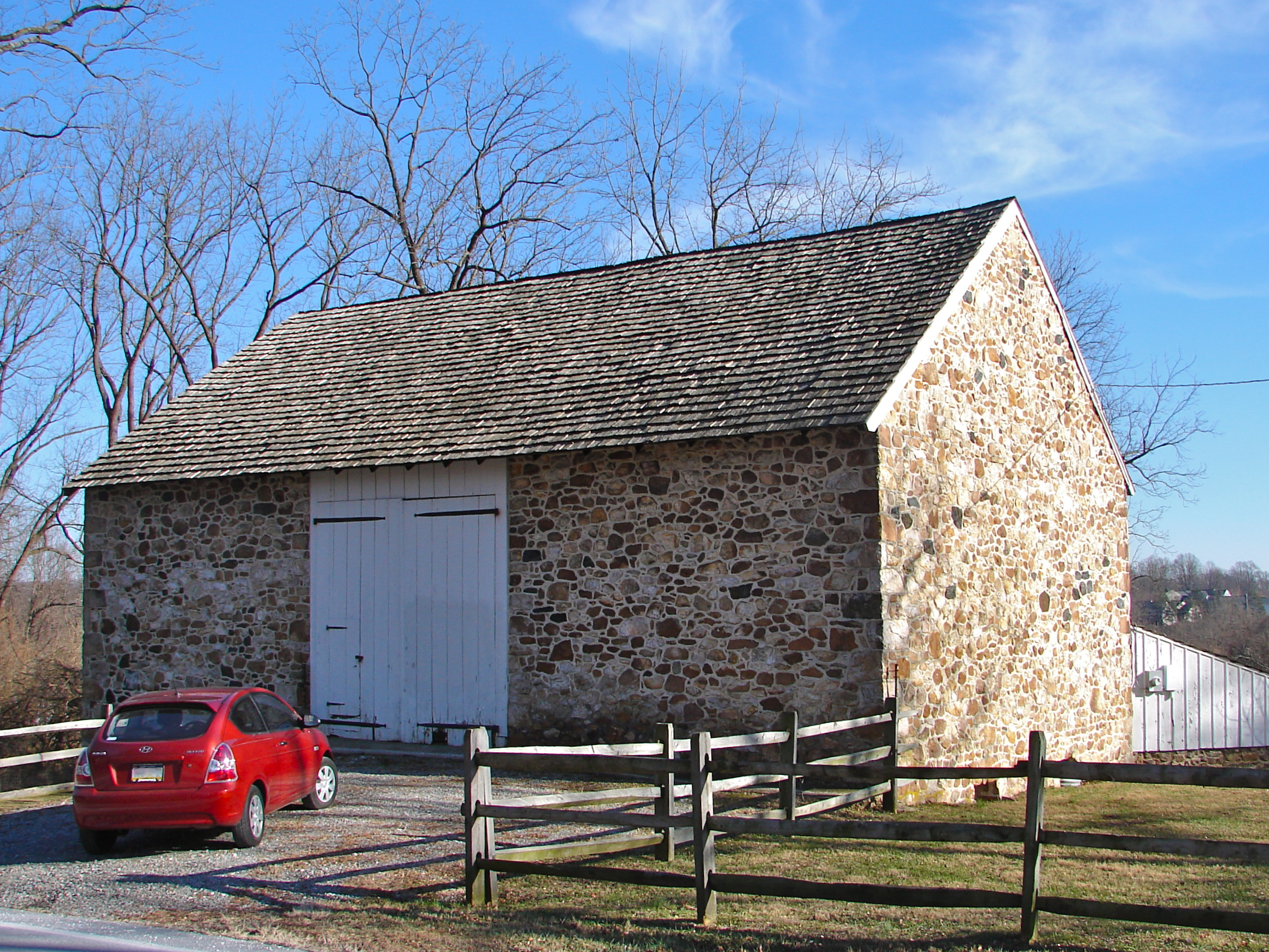 J. Eastburn Barn on the NRHP since November 13, 1986. On Pleasant Hill Rd. southwest of Corner Ketch Rd., near White Clay Creek Park, north of Newark, Delaware.